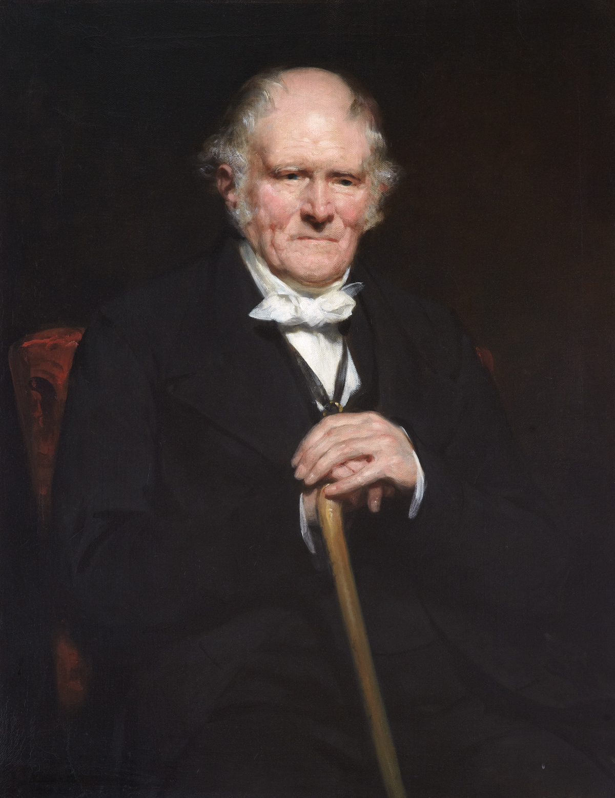 Alexander Monro 'Tertius' (1773–1859) by John Watson Gordon. The University of Edinburgh Fine Art Collection. Oil on canvas, 90 x 70 cm